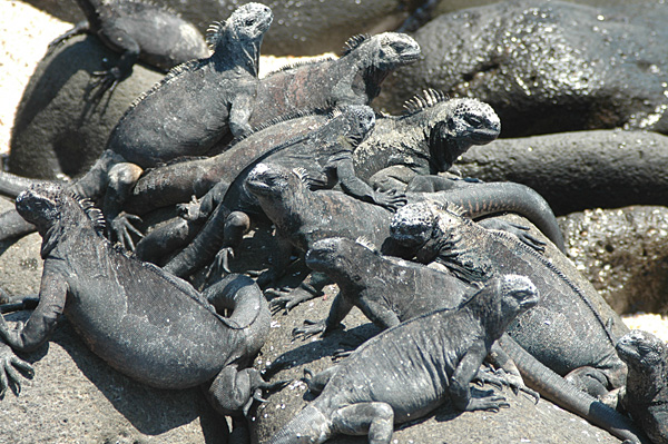 Marine Iguanas, Galapagos Islands, Ecuador. Image taken by Clark Anderson/Aquaimages.